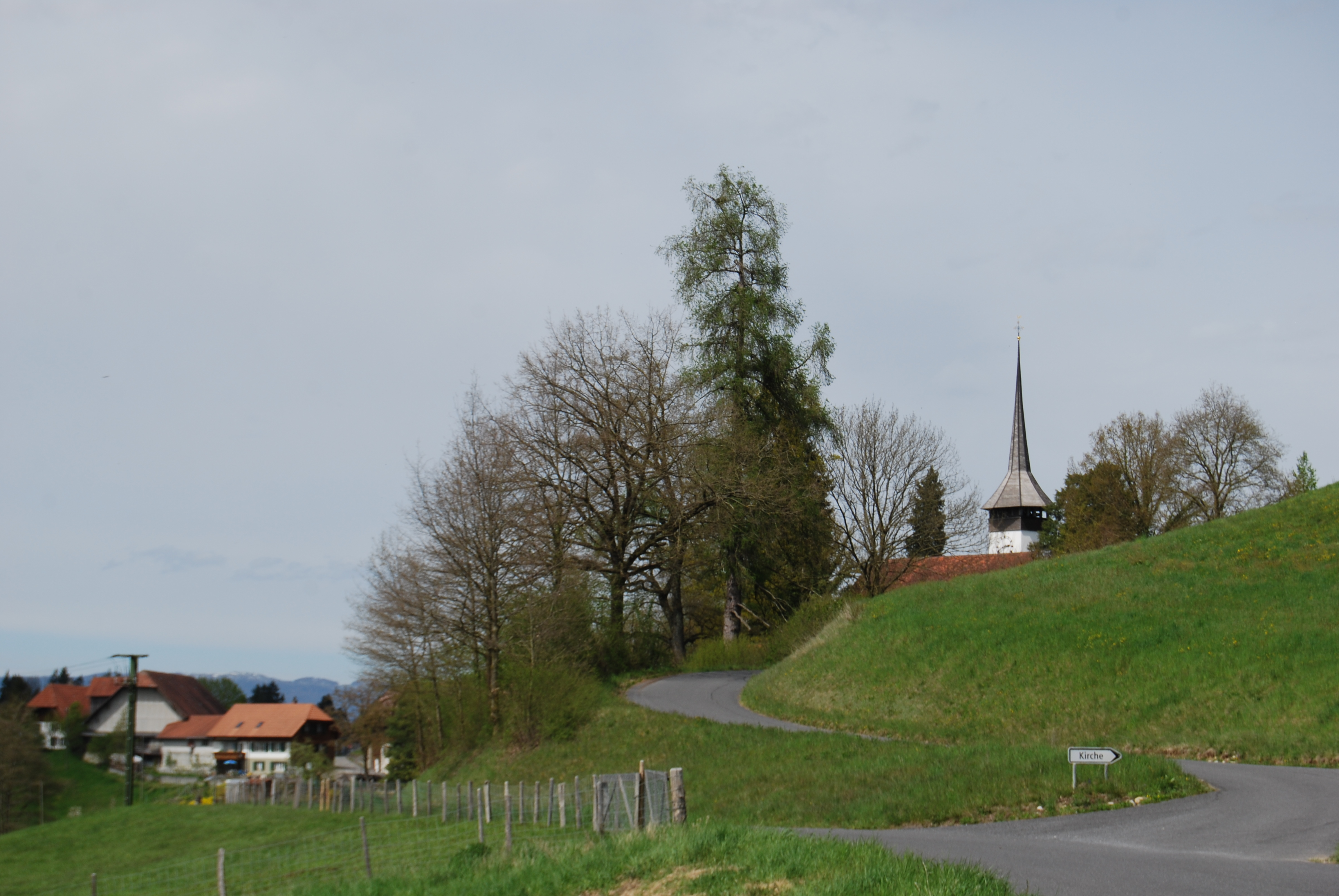 Ferenbalm, canton of Bern, SwitzerlandEsperanto: Ferenbalm, Kantono Berno, Svislando